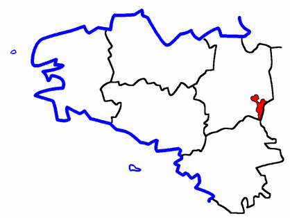 Description: Map for localisazion of cantons of Bretagne region in France Source: made by Hervé Tigier from another large map